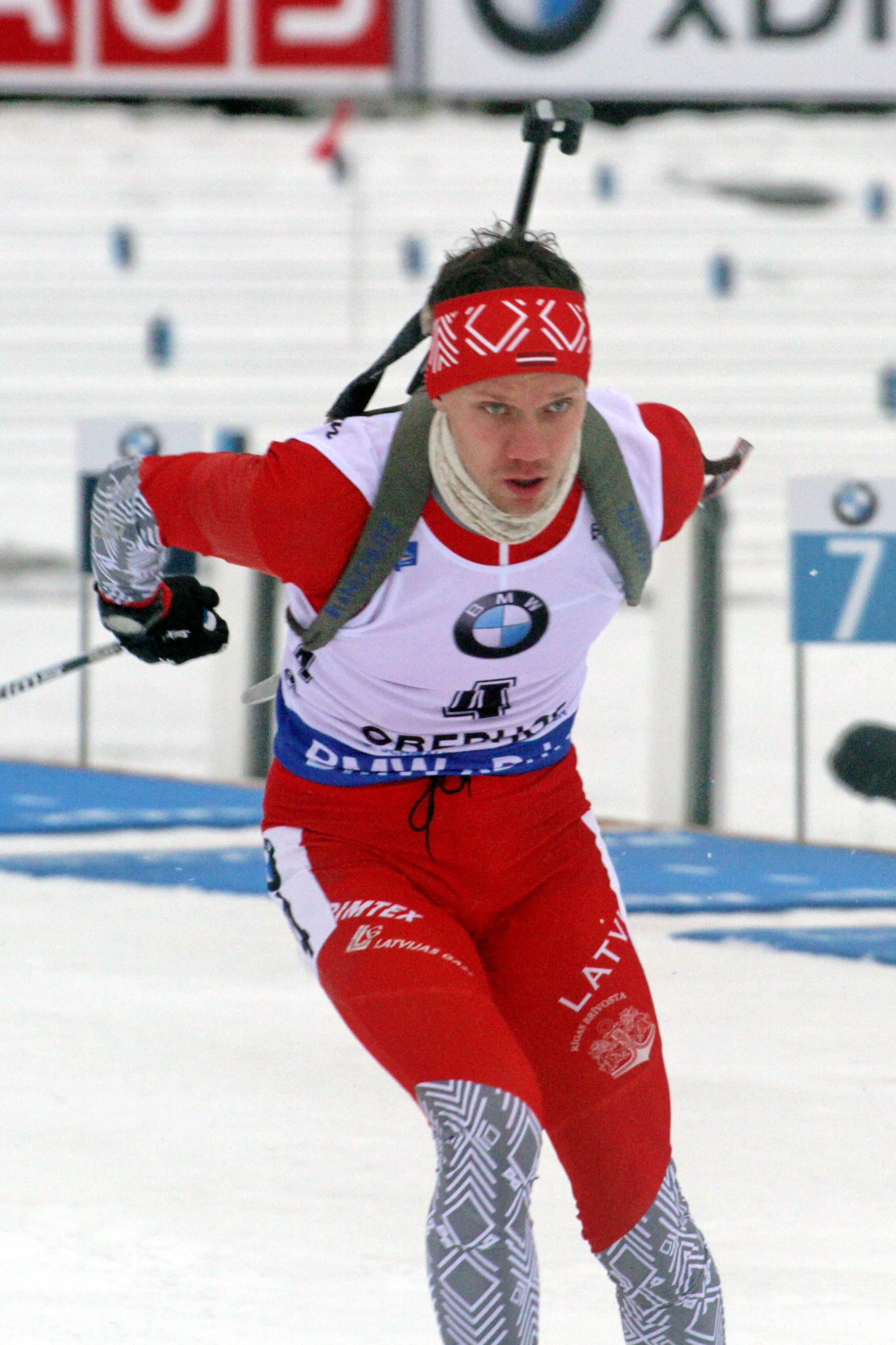 2018 Oberhof Biathlon World Cup - Sprint Men